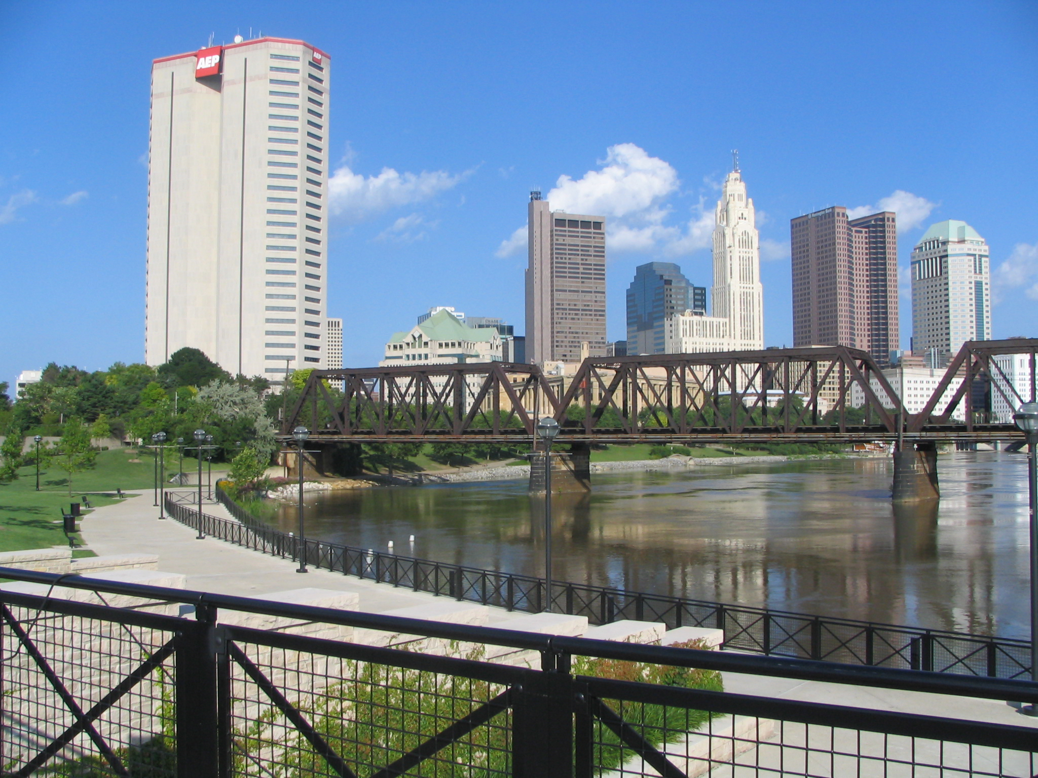 View of downtown Coumbus, Ohio from the North Bank Park Pavillion on the Scioto river. This photo was taken on a beautiful summer day and shows the downtown skyline looking from the northwest.